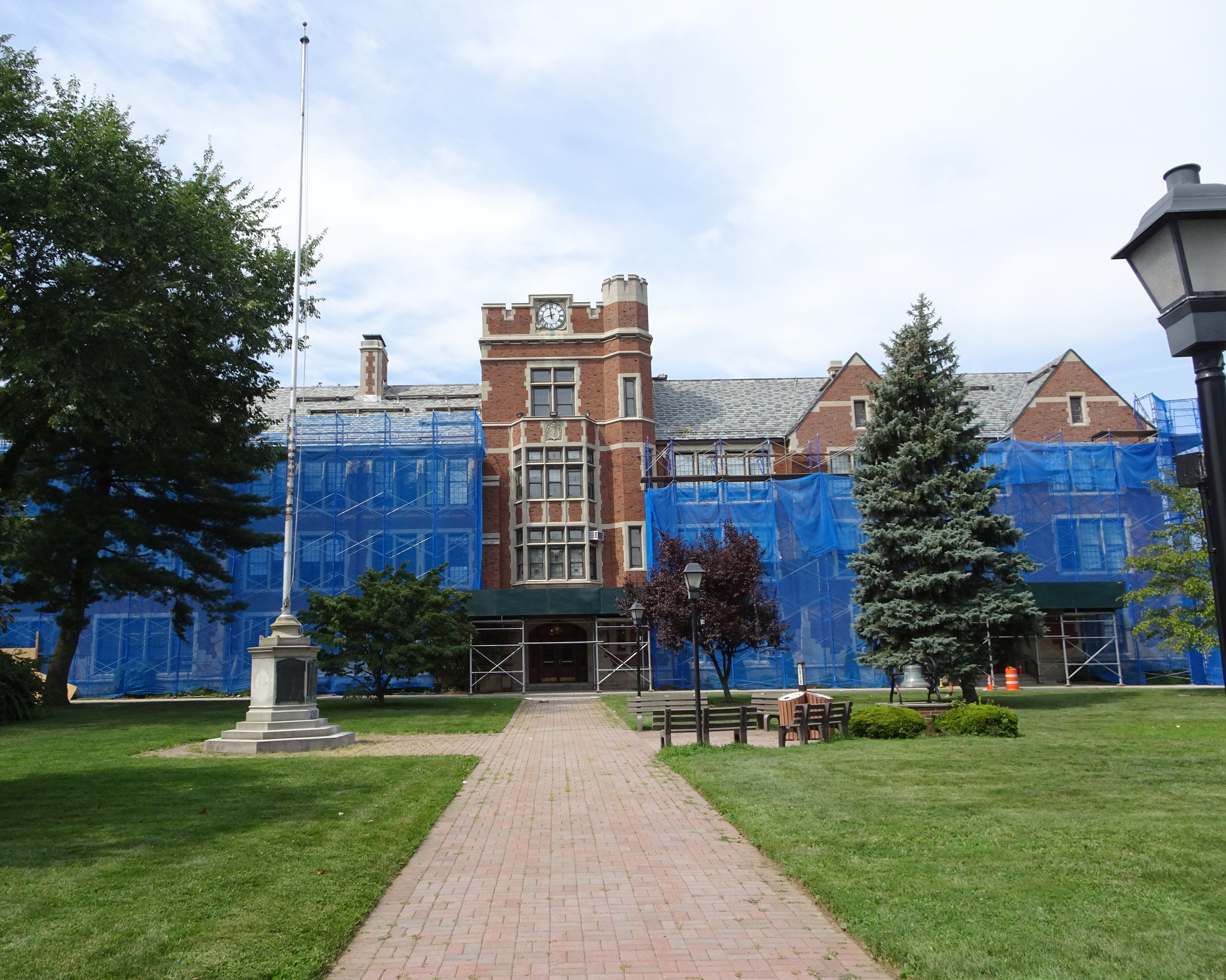 Looking west at Dobbs Ferry Middle & High School on a mostly sunny midday.